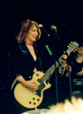 Nancy Wilson of Heart at the 2004 Sweden Rock Festival Sweden Rock Festival Sweden Rock Festival Nancy Wilson (guitarist) Heart (band)